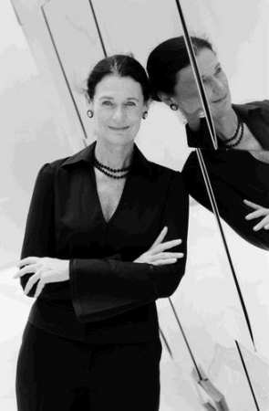 American Artist and Photographer, Elizabeth Gill Lui. Photo Credit:Mark Edward Harris.